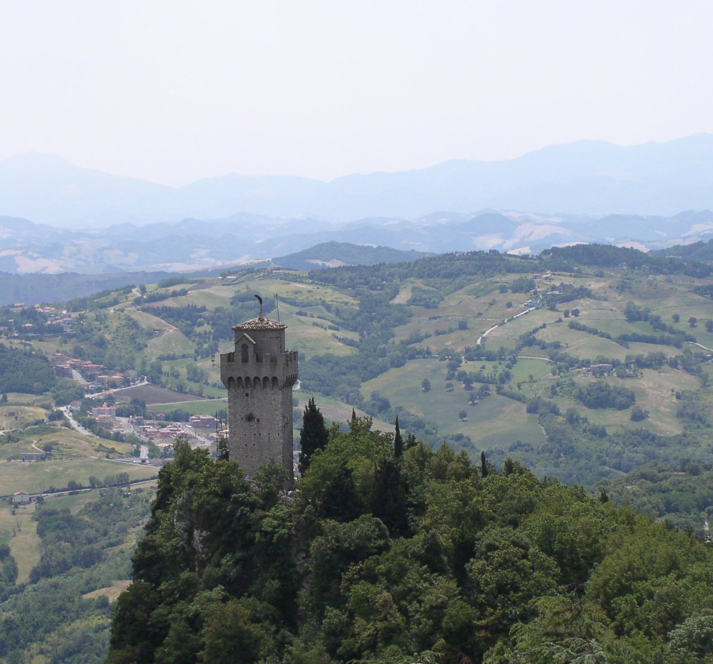 Montale tower in San-Marino